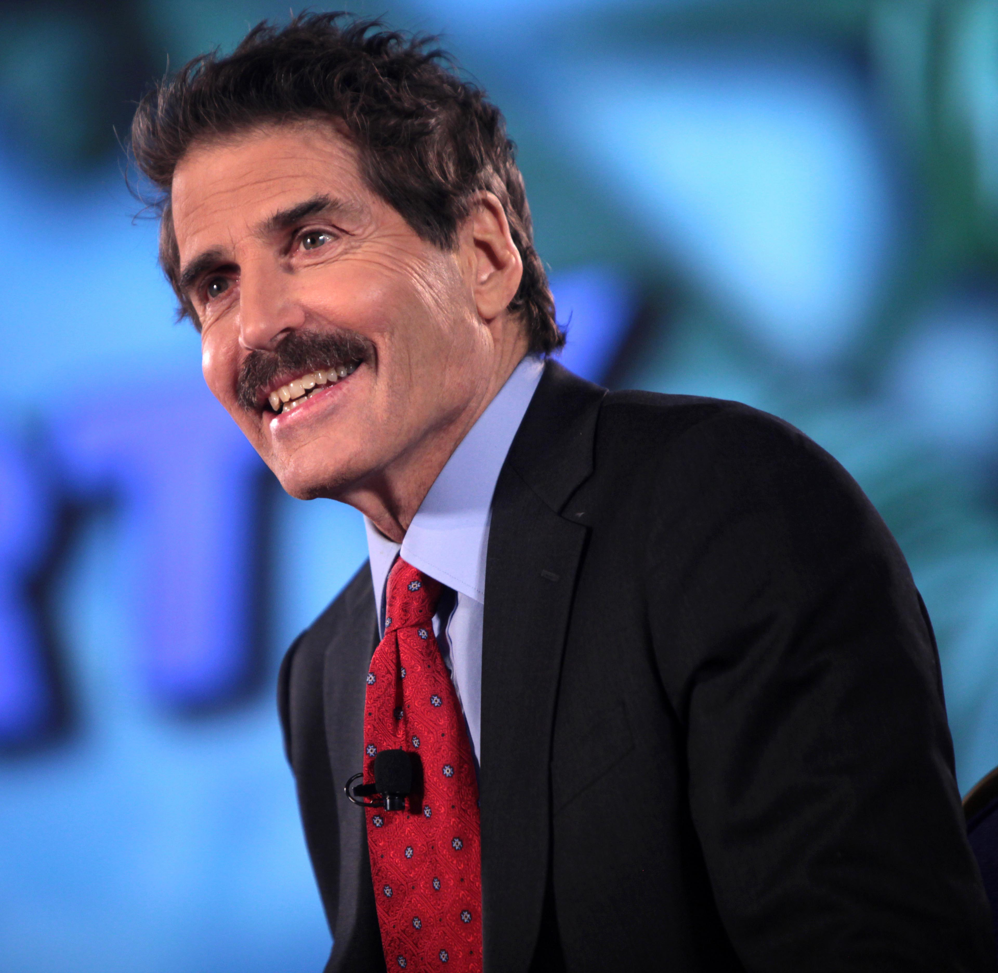 John Stossel speaking at an event in Washington, D.C.